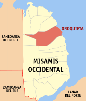 Map of the Misamis Occidental showing the location of Oroquieta